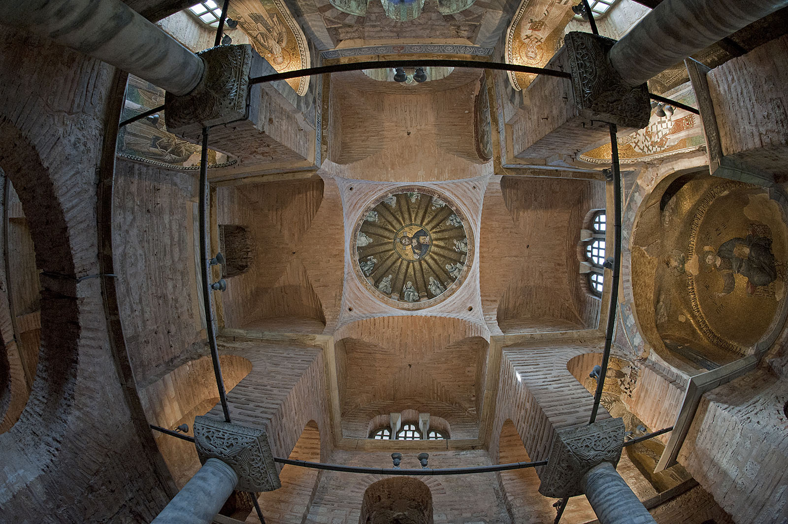 A view to the central dome, showing where some of the mosaics are situated.